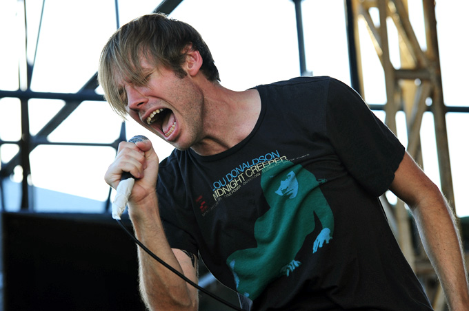 Soundwave Festival 2012 Do Not Publish